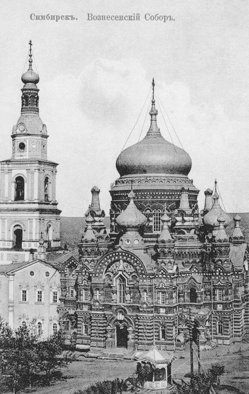 Ascension Cathedral in Simbirsk, Russian Empire